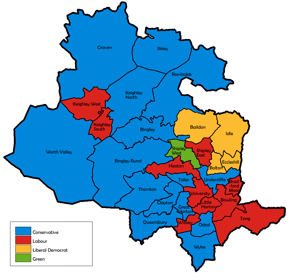 Ward map of Bradford Council with political colouring for the 2000 local election.